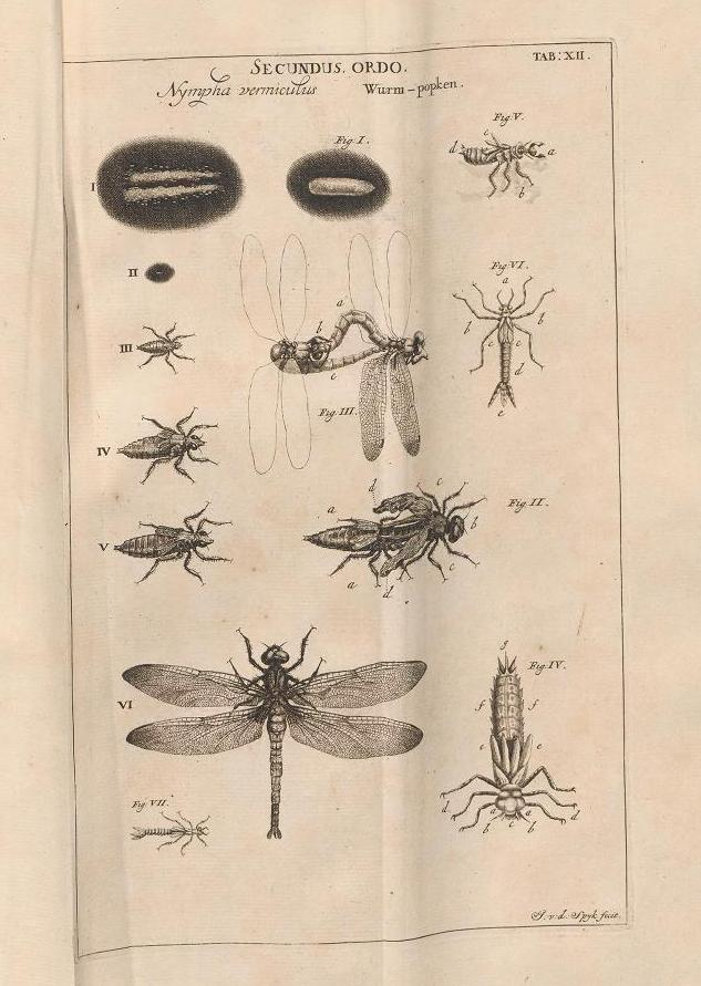 Lifecycle of odonata, Bybel der natuure - door Jan Swammerdam - PL-XII